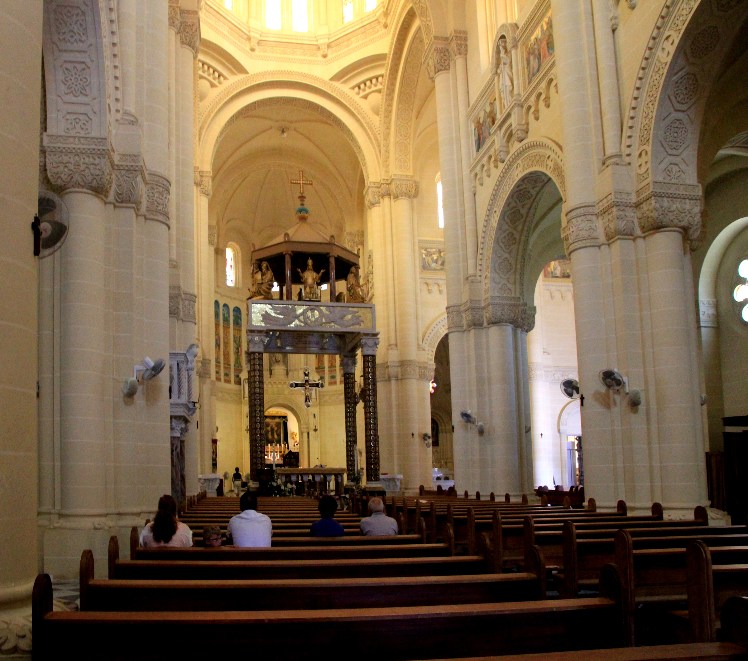 Interior of Roman basilica Ta' Pinu on Gozo island, Malta